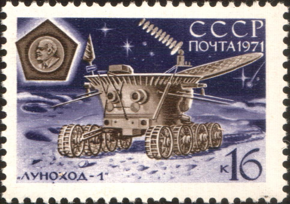 USSR stampː Lunokhod 1 Moon-vehicle. Seriesː Soviet Luna 17 Spacecraft Carried Lunokhod 1 Rover to the Moon (1970.11.10-17)